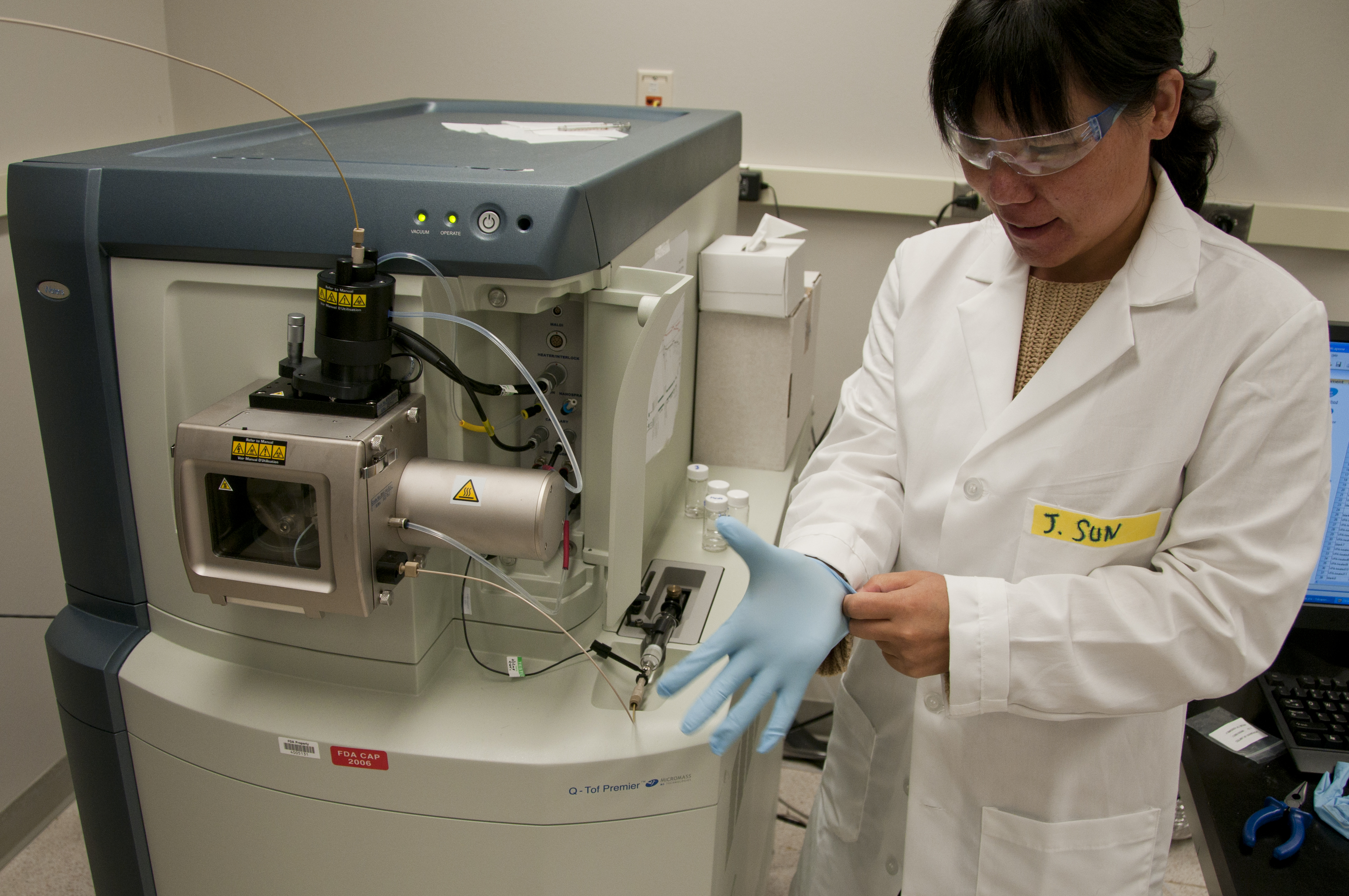 NCTR scientist preparing to conduct mass spectrometry experiment. The National Center for Toxicological Research (NCTR) is FDA's internationally recognized research center. The unique scientific research expertise of NCTR is critical in supporting FDA product centers and their regulatory science roles. For more about NCTR, read the Consumer Update at FDA photo by Michael J. Ermarth